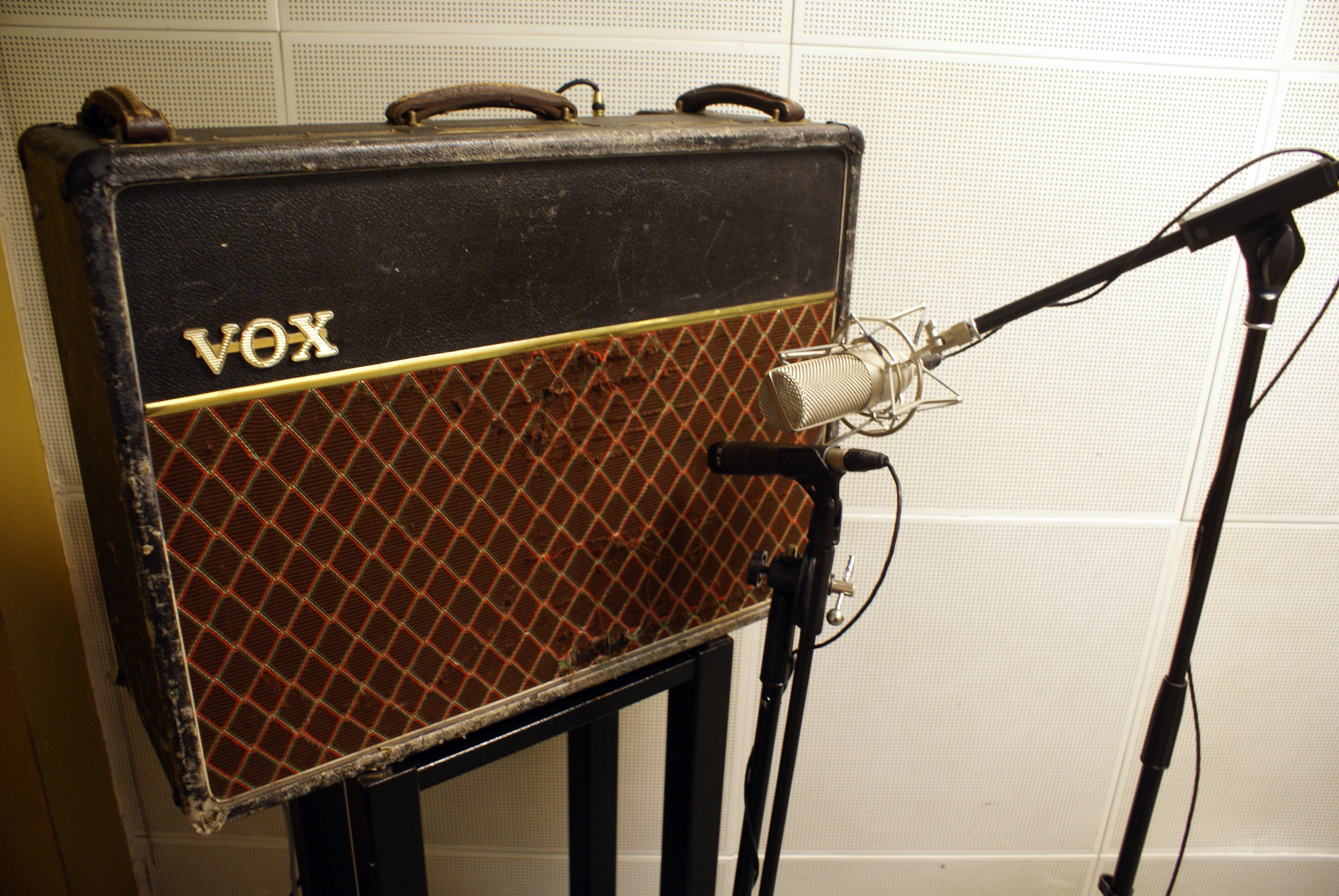 Set-up guitar Jérôme Mardaga by Guy Sternberg : Vox AC-30 + ShinyBox & SM 57 microphones. Recording Marc Morgan's album "Beaucoup Vite Loin" at LowSwing studio with Guy Sternberg assisted by Florian Von Keyserlingk, Berlin, january 2011. Marc Morgan line-up : Marc Wathieu : guitar, vocals. Jérôme Mardaga : guitars. Calo Marotta : bass. Jérôme Danthinne : drums. Guest : Daniel Offerman : Vocal on "The operator".